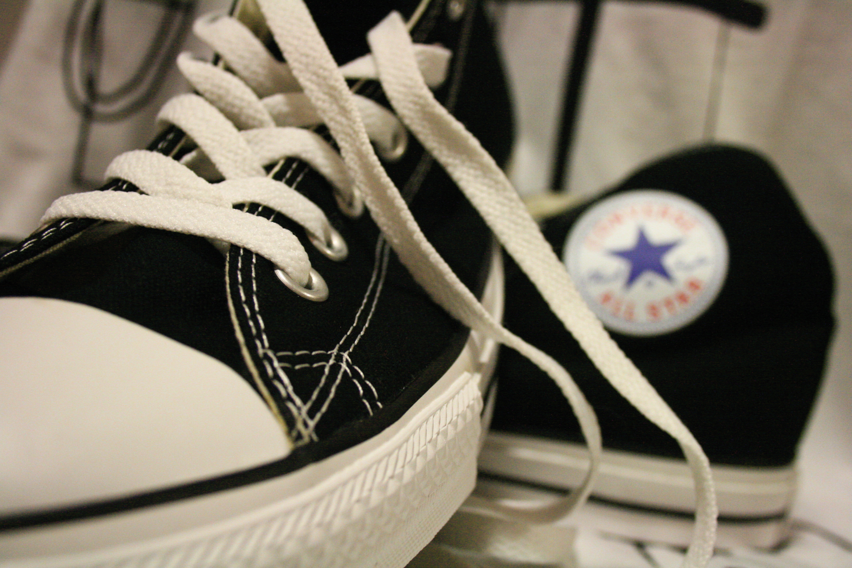 For some reason whenever I buy new converse, I have to take photos. They are shoes of such beauty, I can't wear them until they are totally documented!!!